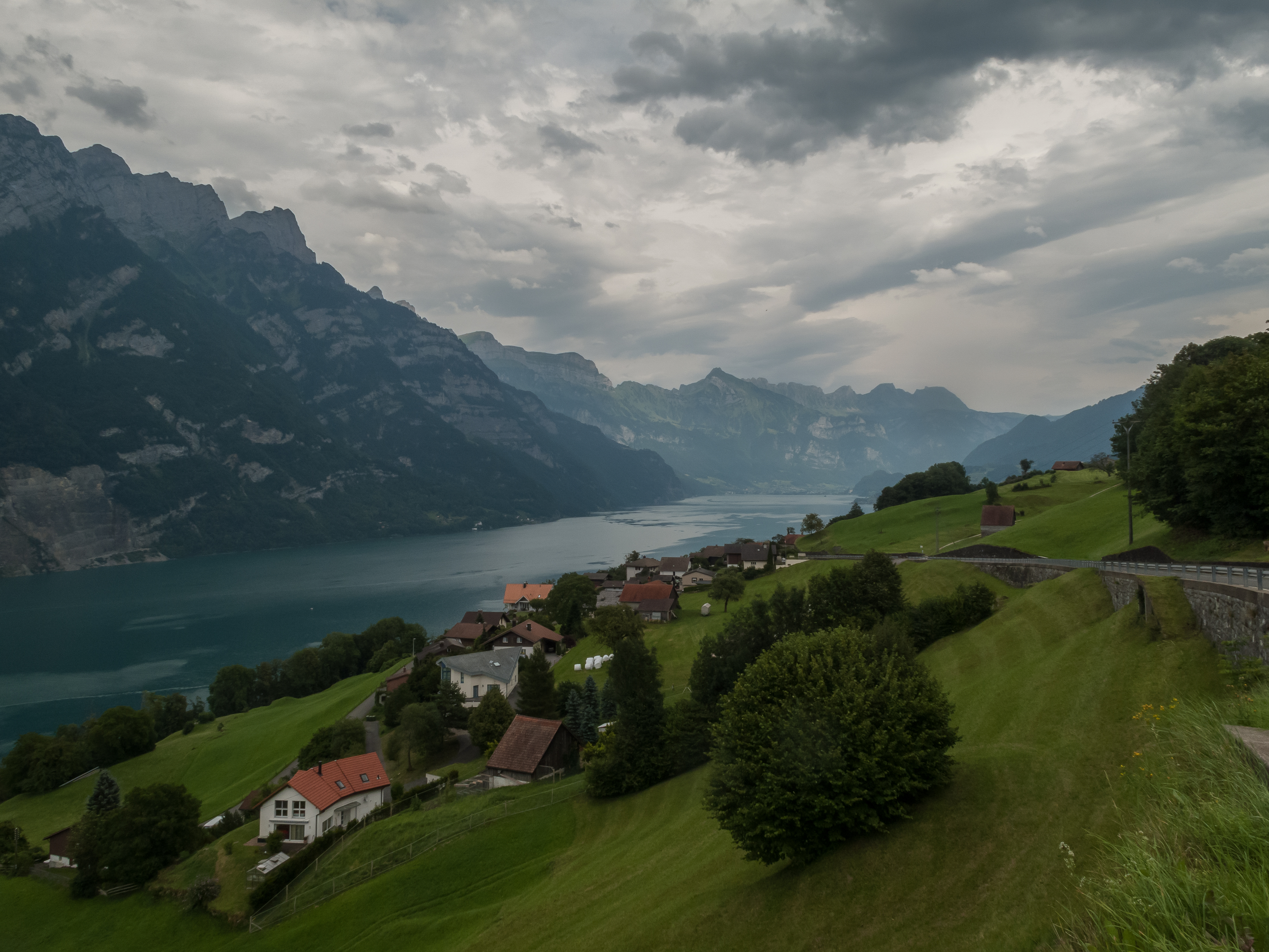 Mühlehorn, view to the village with der Walensee in the background